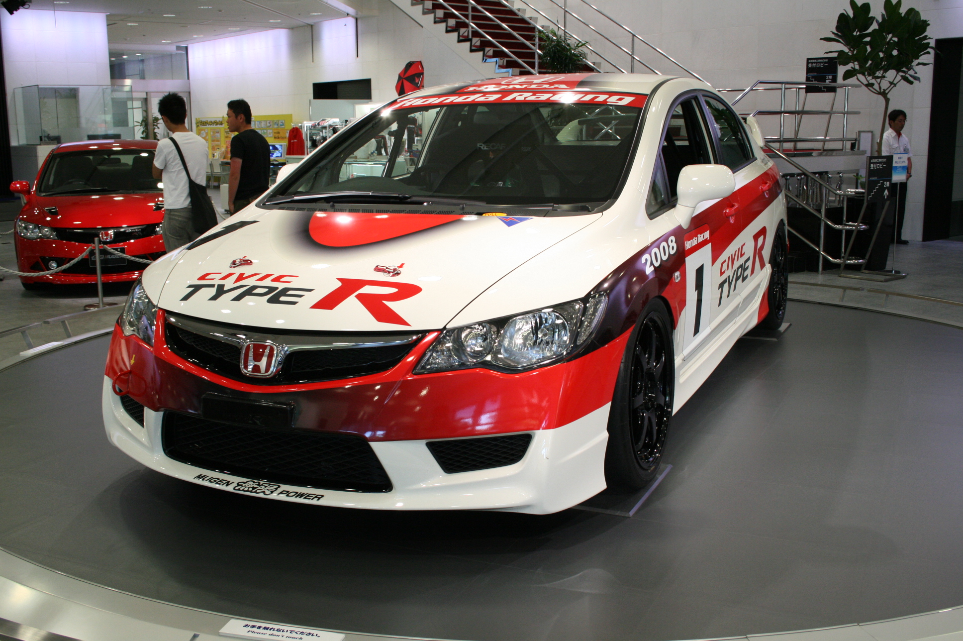 Civic typeR Onemake race type Prototype